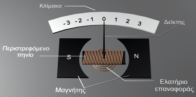 Galvanometer